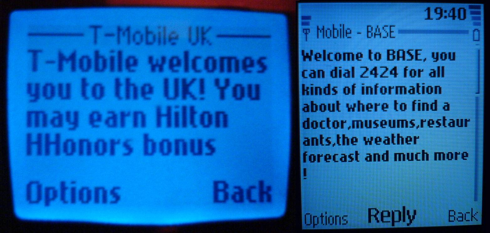 Author: Redvers. Two "welcome" messages received via SMS text messaging. T-Mobile welcomes Proximus to the United Kingdom; BASE welcomes Orange subscribers to Belgium. Both are Nokia phones, but the picture was taken with another brand of mobile phone camera.